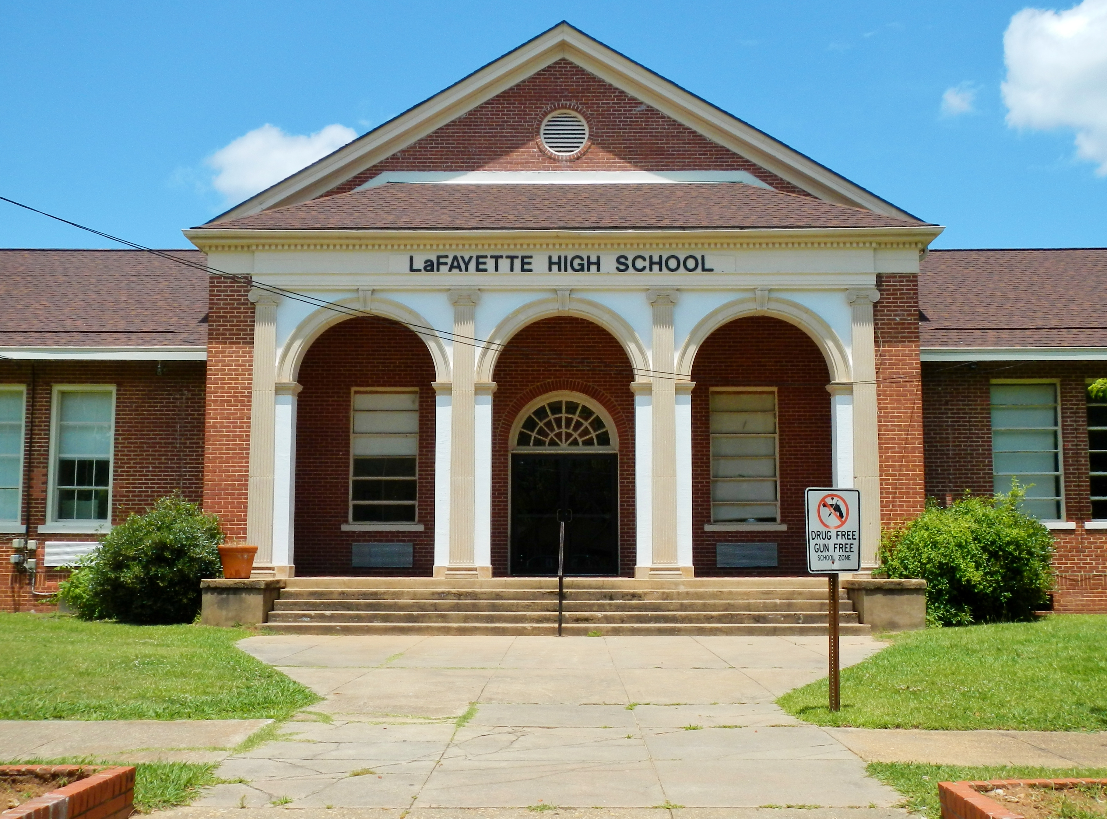 This is a photo of LaFayette High School in LaFayette, AL.